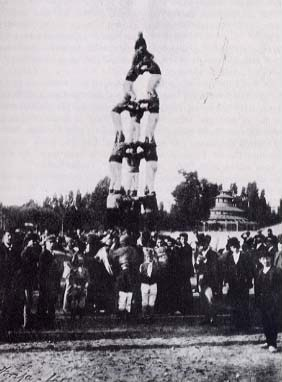 "3 de 7 aixecat per sota" (in Catalan, literally "3 by 7 raised from below") of Colla Vella dels Xiquets de Valls in the first "castellers" contest held ever in the city of Barcelona during La Mercè festival in 1902.